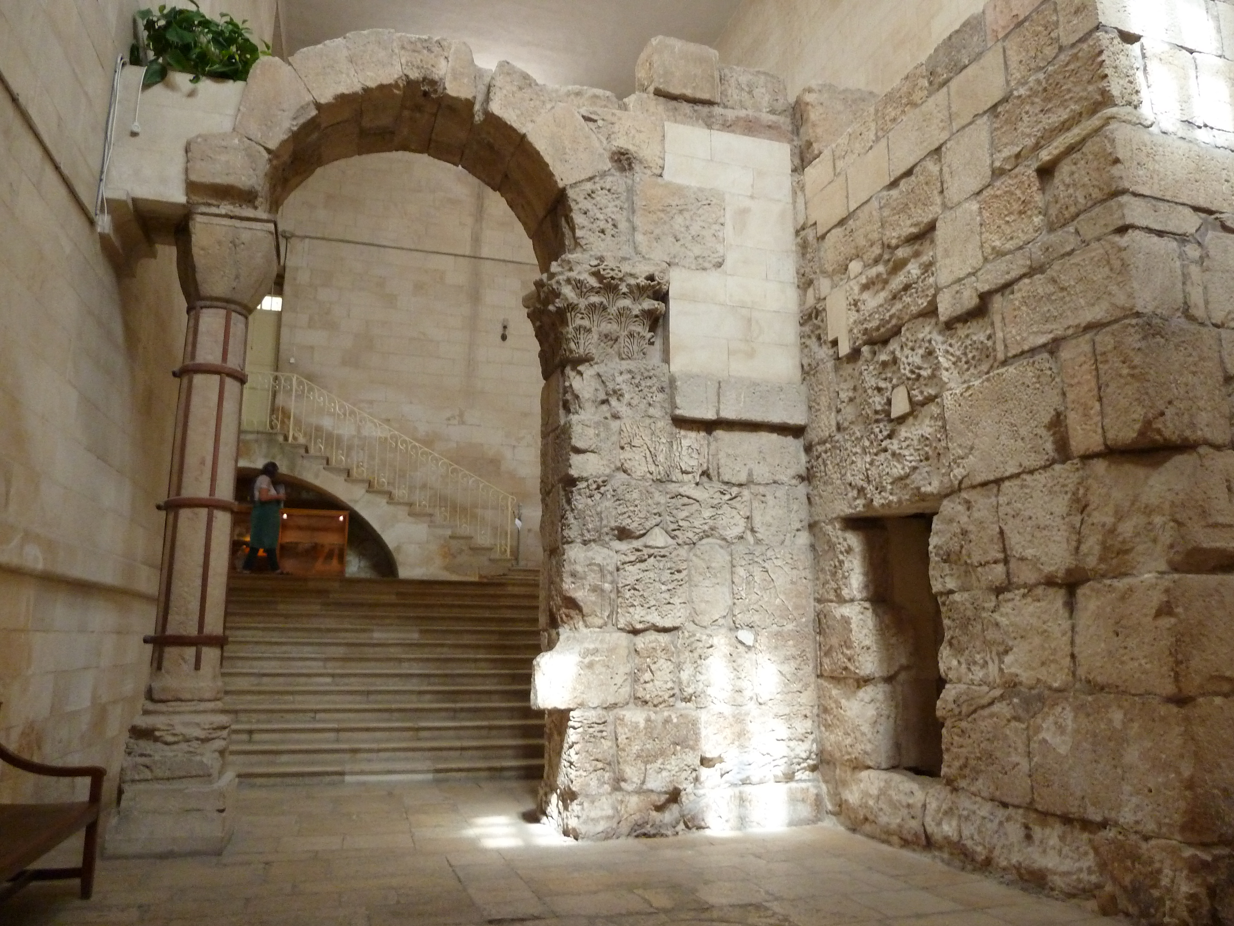 Old Jerusalem Russian Church antique gate